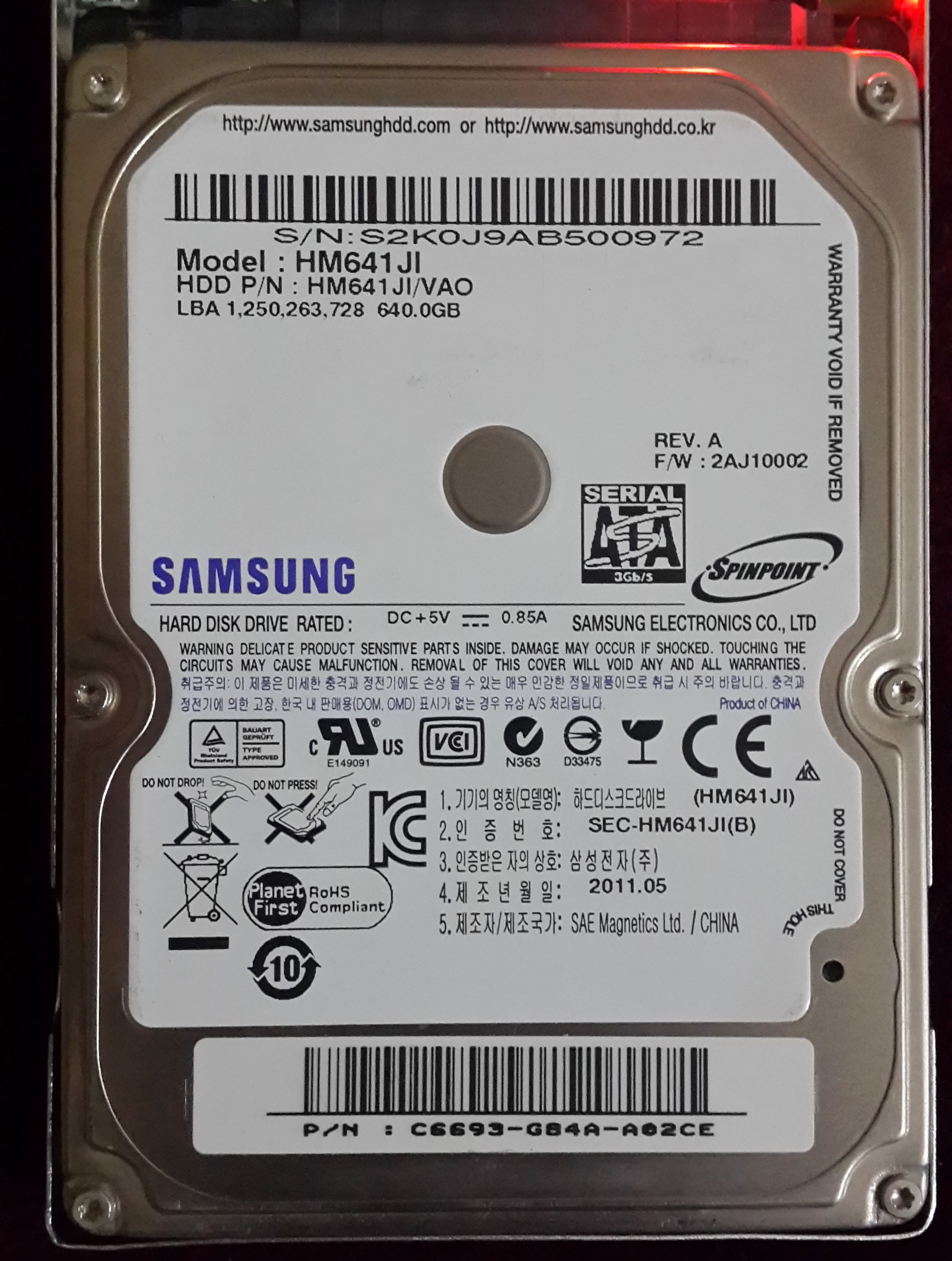 640 GB, 2.5" Hard Disk, Model HM641JI